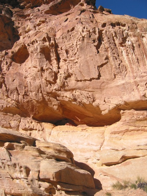 A Fremont granary in Capitol Reef National Park In the crevice halfway up the cliff is a granary built by the Fremont people in a canyon near the Fremont River Photograph taken by User:Bob Palin on 31st October 2004.